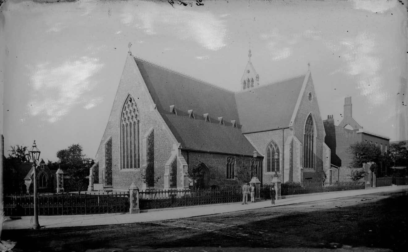 Greyfriars Church, Friar Street, Reading, from the south-east, c. 1875. The church is surrounded by a low wall with iron railings and ornate gas-lamps on top. To the right is the vicarage, with its divided chimney. 1870-1879 : glass negative by H. W. Taunt, from glass negative, Box 22 No. 2589.